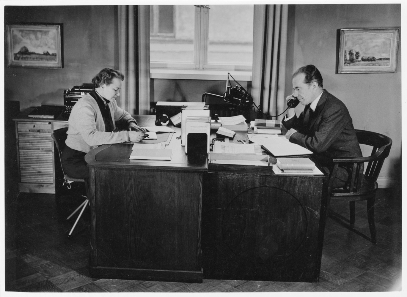 Photograph of the Finnish linguists Paula Vuorela and Matti Sadeniemi.